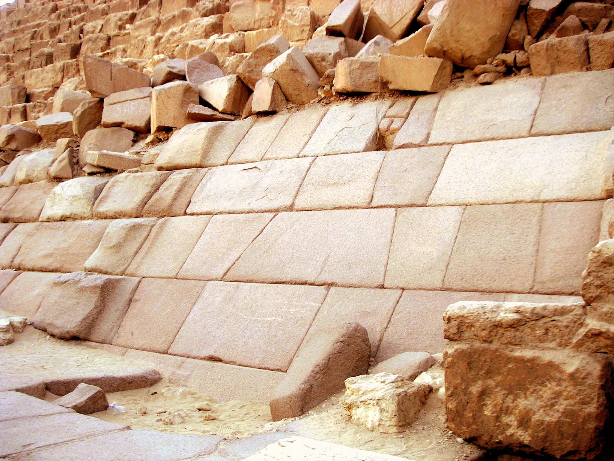 Flooring granite pyramid of Menkaure at Giza - Egypt Fourth Dynasty